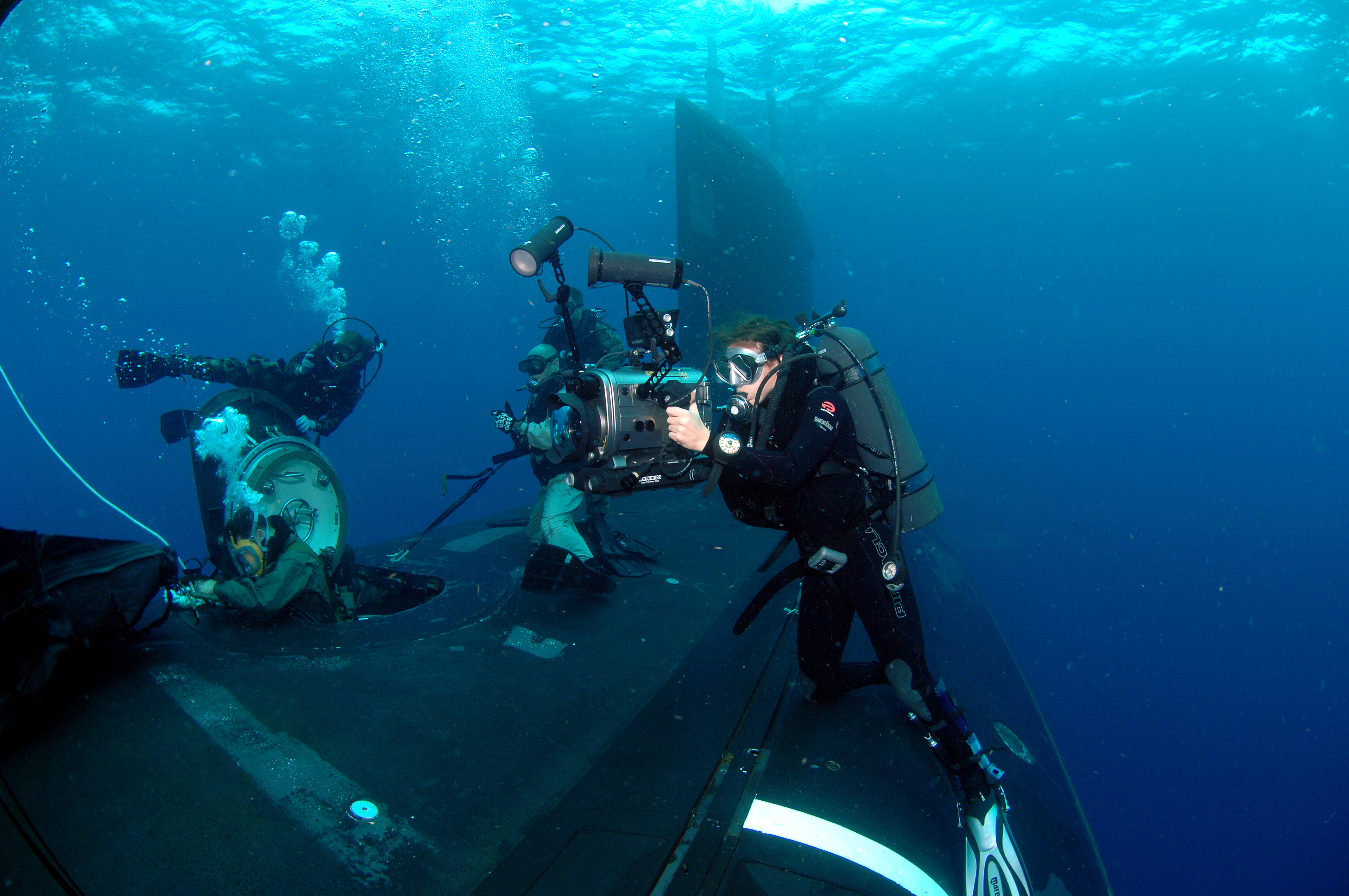 KEY WEST, Fla. (Oct. 26, 2007) Mass Communication Specialist 2nd Class Kori Melvin documents Navy divers and special operators from SEAL Delivery Vehicle Team (SDV) 2 and Naval Special Warfare Logistics Support conducting Lock Out Training with the nuclear-powered fast-attack submarine USS Hawaii (SSN 776) for material certification. Material certification allows operators to perform real-world operations anytime, anywhere. U.S. Navy photo by Senior Chief Mass Communication Specialist Andrew McKaskle (Released)